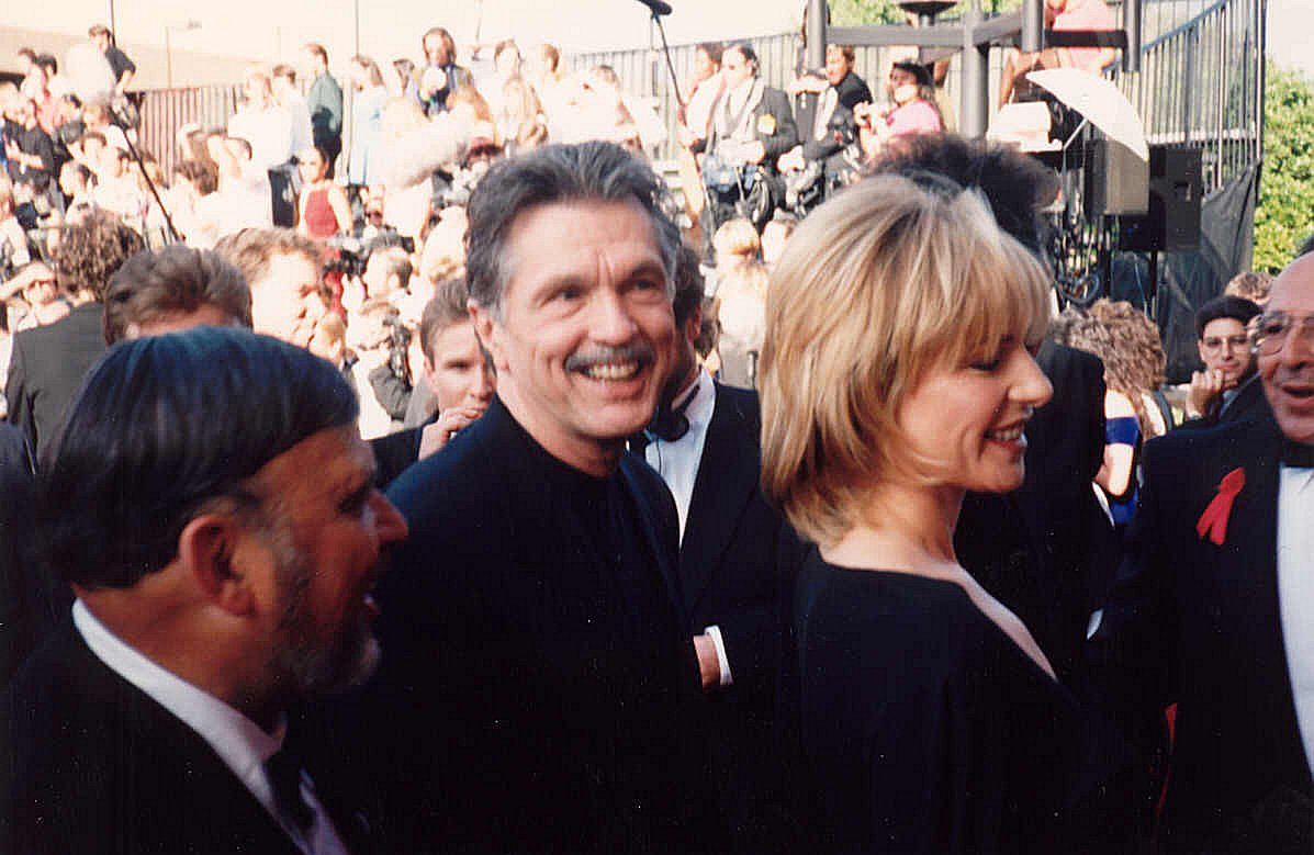 Tom Skerritt on the red carpet at the Emmys 9/11/94 - Permission granted to copy, publish, broadcast or post but please credit "photo by Alan Light" if you can